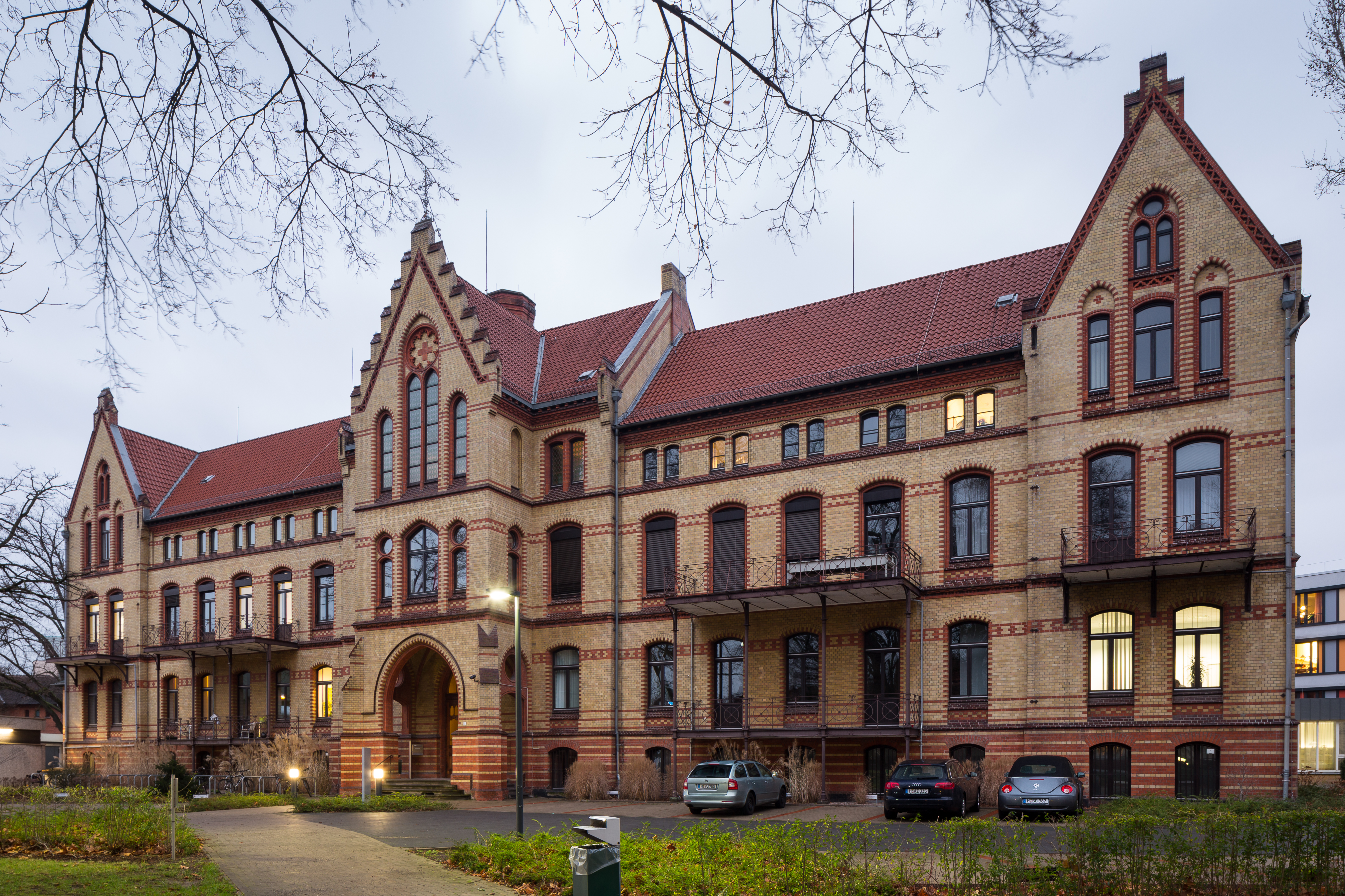 Hospital "Clementinenhaus" located at Luetzeroderstrasse in List district of Hannover, Germany.